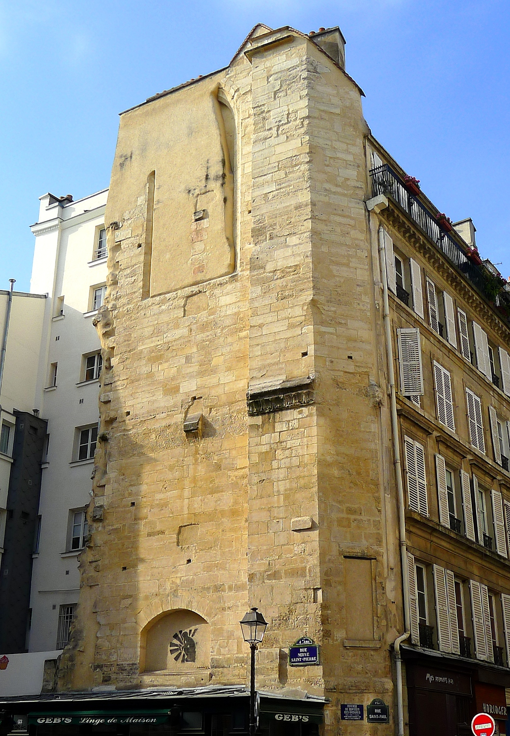 Neuve-Saint-Pierre and Saint-Paul streets - Paris